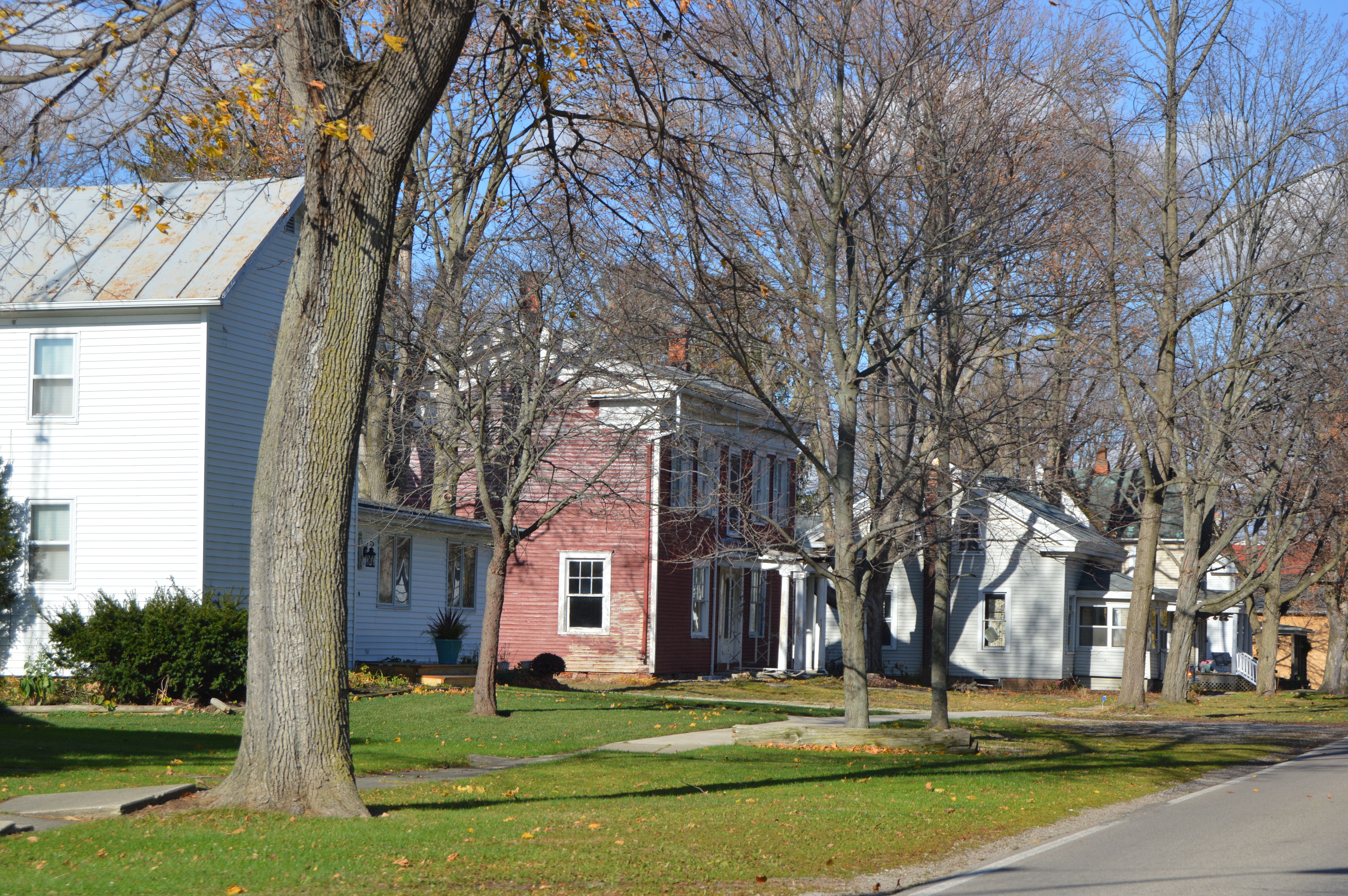 Houses on the western side of Main Street south of the Second Street intersection in Evansport, Ohio, United States.